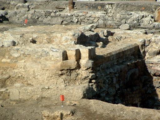 Bermondsey Abbey archaeological dig - details, 05 March 2006